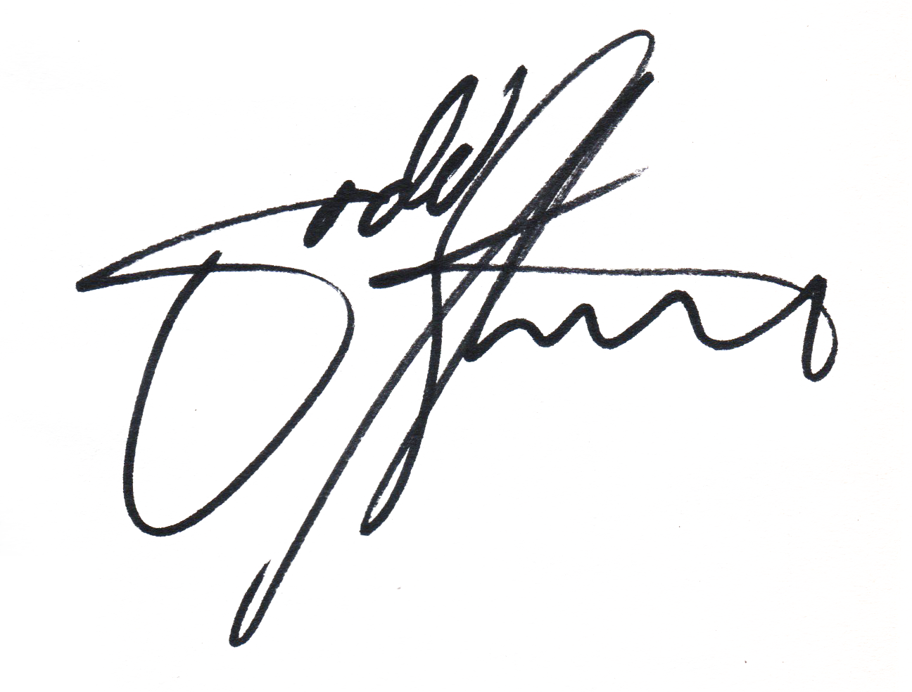 Todd Strasser's signature from a signed book